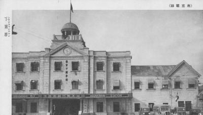 Old Xiaguan Railway Station in 1930